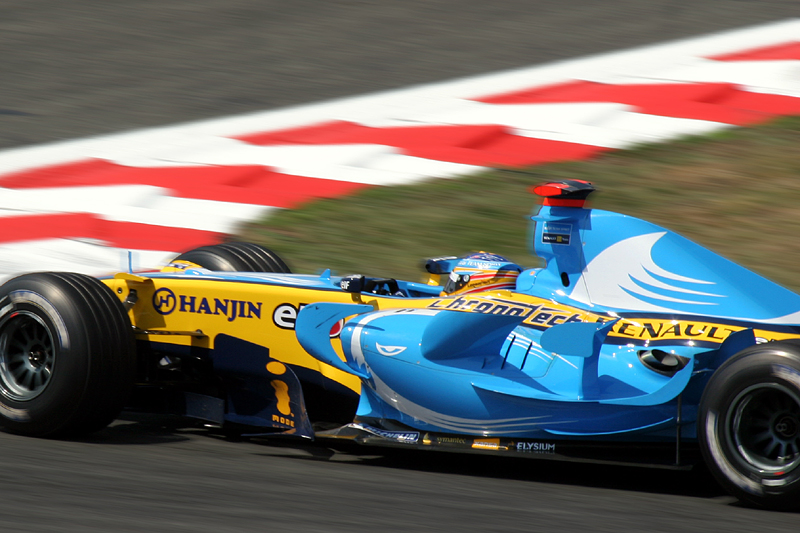 Fernando Alonso driving for Renault F1 at the 2006 French Grand Prix.